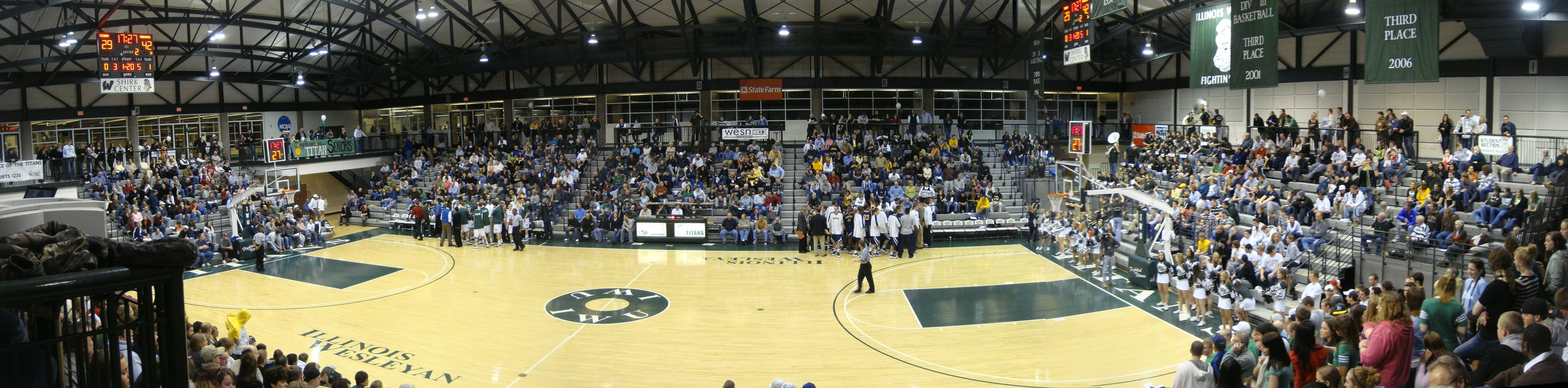 Panorama of the Shirk Center at Illinois Wesleyan University in Bloomington, IL